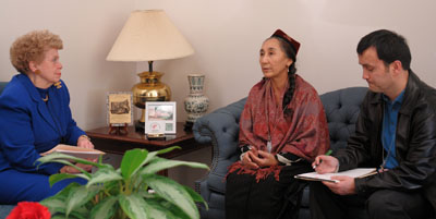 Assistant Secretary for Population, Refugees and Migration Ellen Sauerbrey met Uyghur human rights activists, Rebiya Kadeer, President of the International Uyghur Human Rights and Democracy Foundation, and Alim Seytoff, General Secretary of the Uyghur Human Rights Project in her office at the Department of State. They discussed the human rights concerns of China’s Uyghur minority and the importance of preserving the Uyghur culture, language, population, and economy. The Uyghur live in Xinjiang Province in northwest China. For more information, see the International Uyghur Human Rights and Democracy Foundation website at and the Uyghur Human Rights Project at